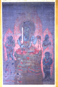 Five Guardian Kings (絹本著色五大尊像, kenpon chakushoku godaison zō). Color on silk. Located at Kiburi-ji (来振寺), Ōno, Gifu, Japan. The scrolls have been designated as National Treasure of Japan in the category paintings. One of five hanging scrolls: Acala, 138cm x 88cm